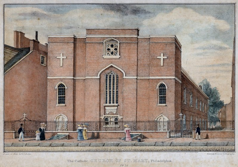 Hand-colored lithograph (on stone) of Old St. Mary's Catholic Church on Fourth Street in Philadelphia, Pennsylvania